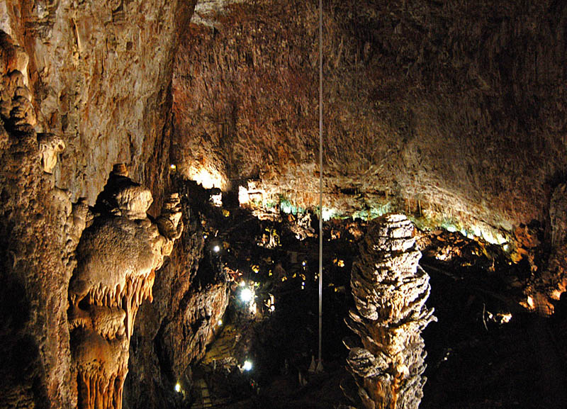 Inside the Grotta Gigante, the largest tourist cave in the world, located near Trieste, Friuli-Venezia-Giulia, Italy.